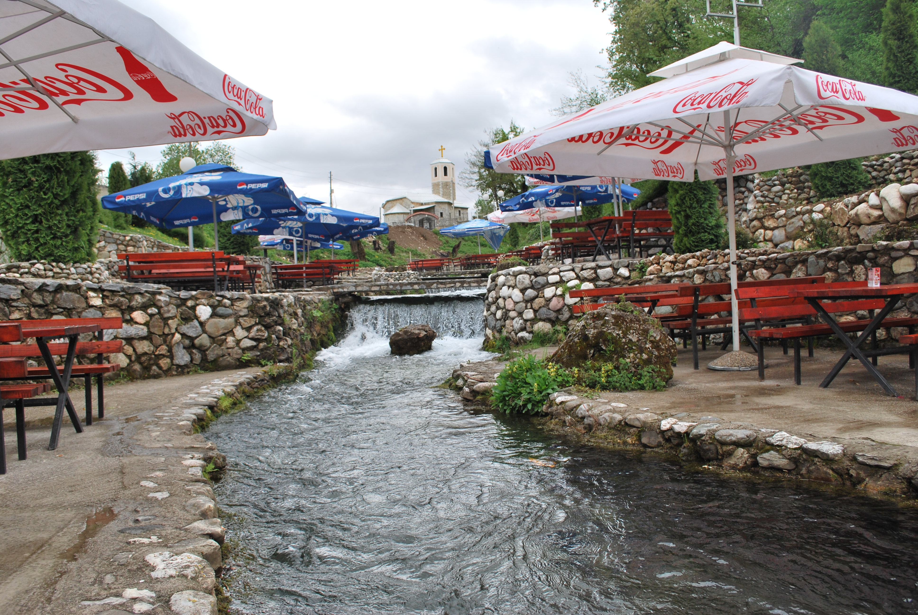 Fish restaurant Burimi in Vrutok, Macedonia